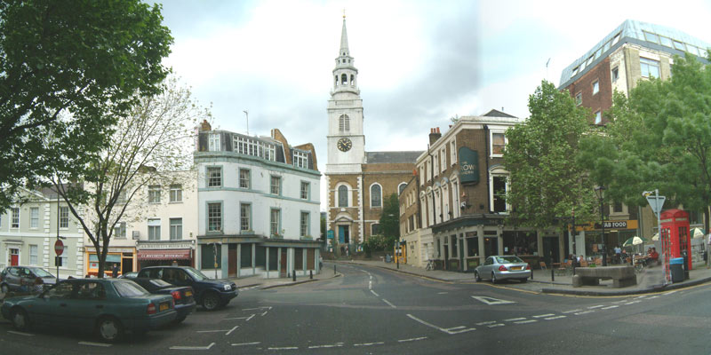 Clerkenwell Green and St James' Church, photo by nevilley. I'm sorry about the dodgy joins where I could not stitch it together properly (it's really four photos) but it still gives an impression of what it's like. The Green itself extends for some distance to the viewer's right and left but only this angle includes the church.